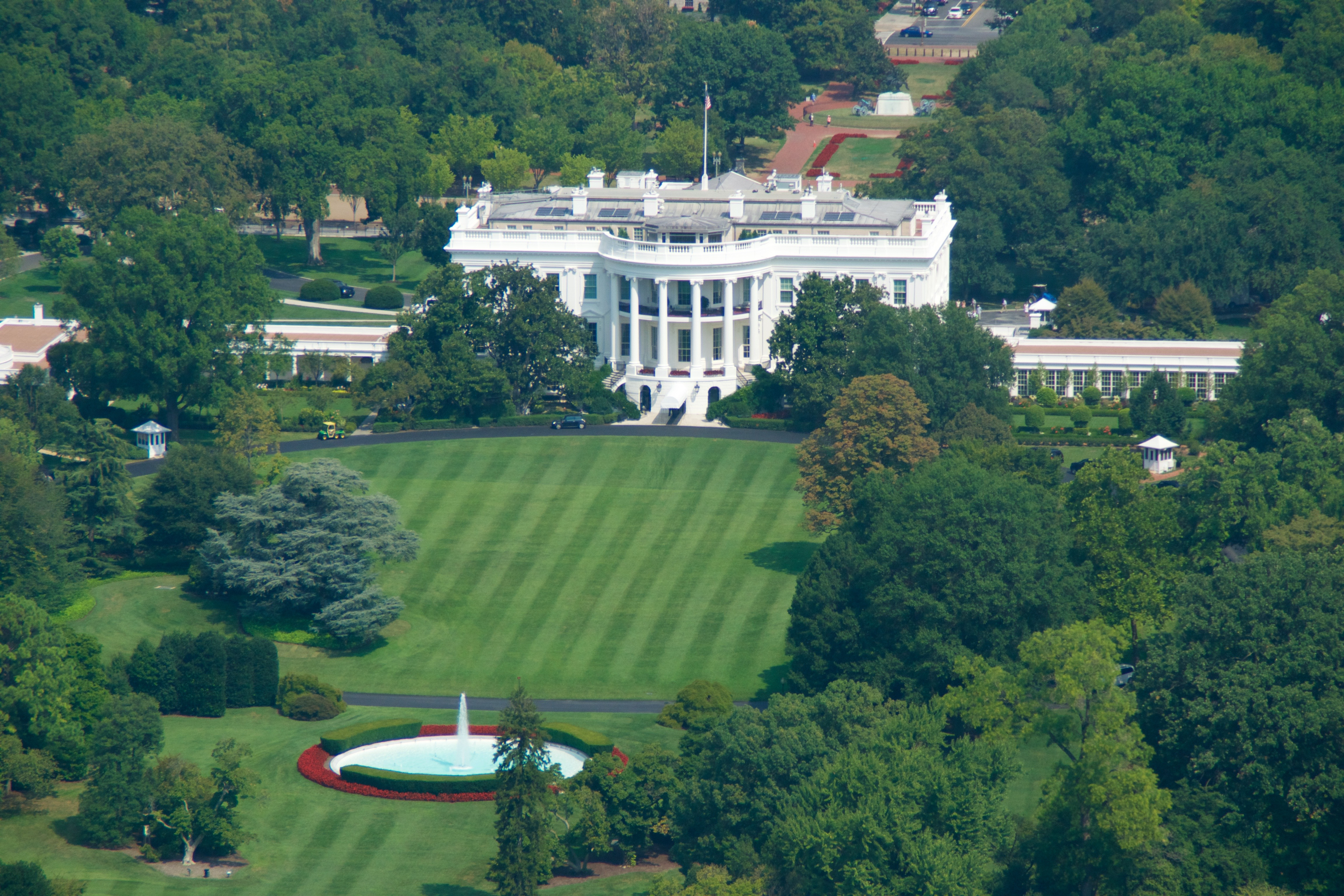 The White House seen from the Washington Monument (August 2015)